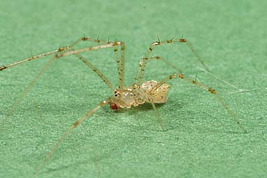 male Chrysso pulcherrima from Okinawa.